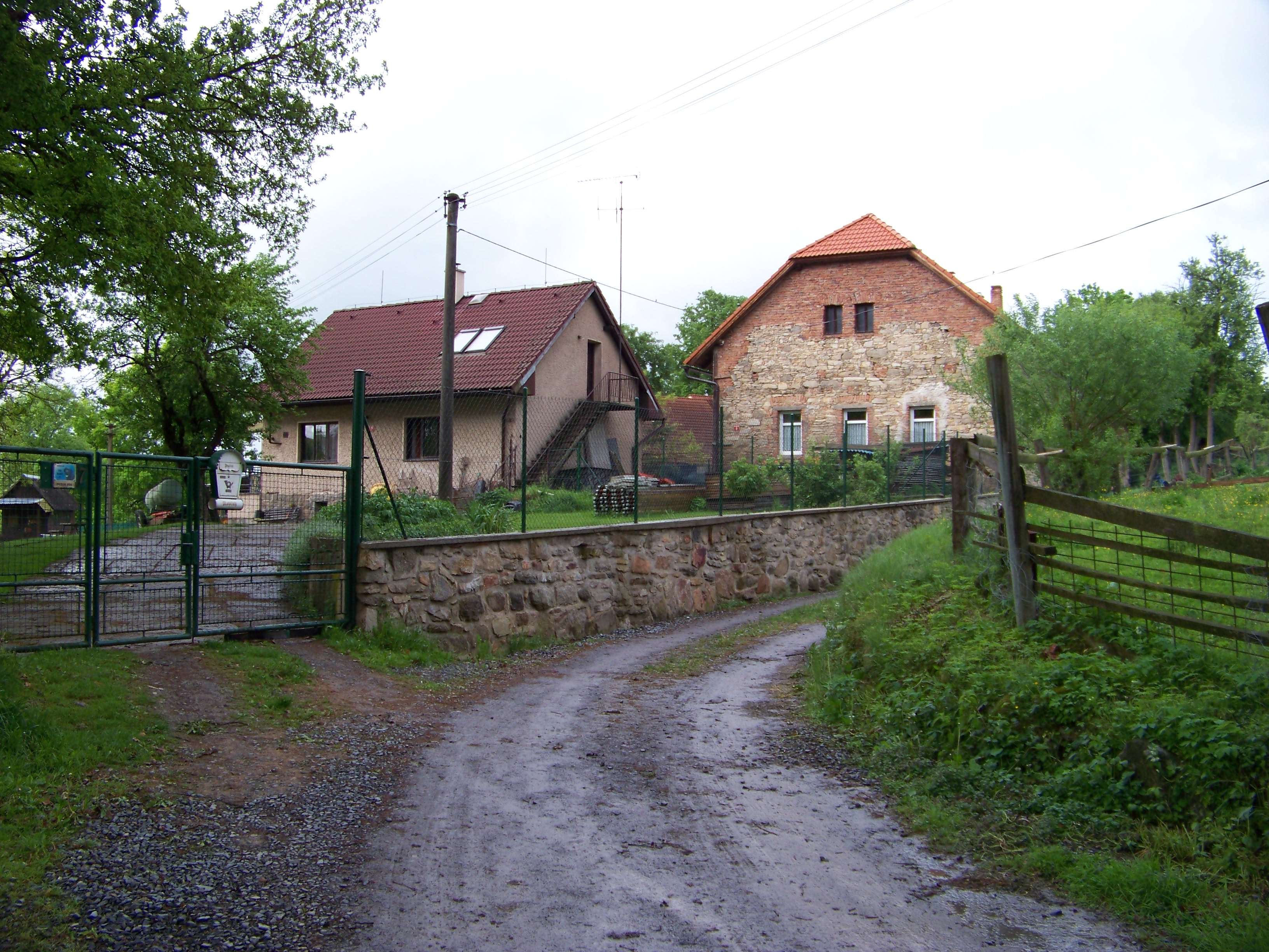 Vrchotovy Janovice-Libohošť, Benešov District, Central Bohemian Region, the Czech Republic. Houses No. 7 and 5. - OpenStreetMap(Info)